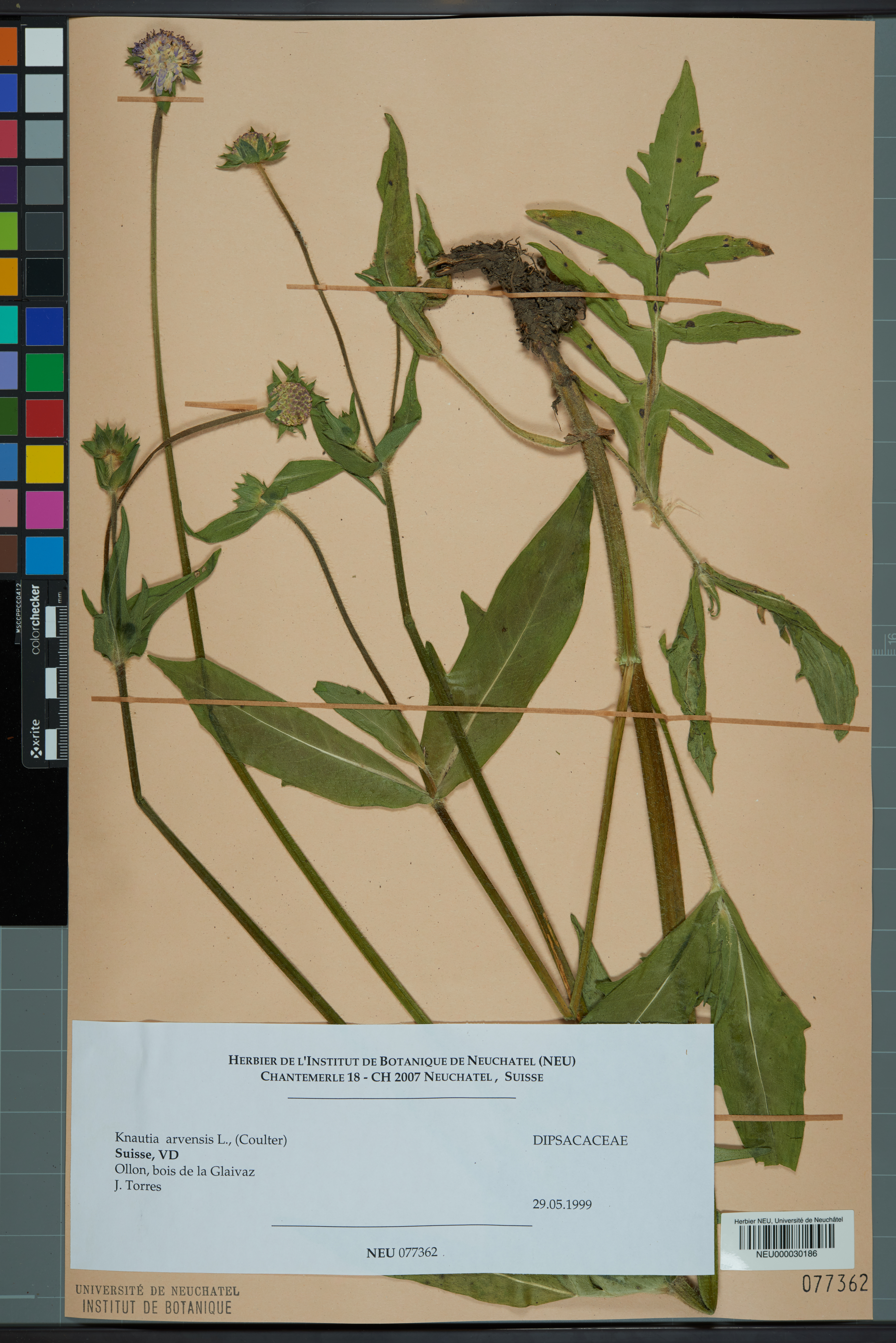 Dried pressed specimen of Knautia arvensis